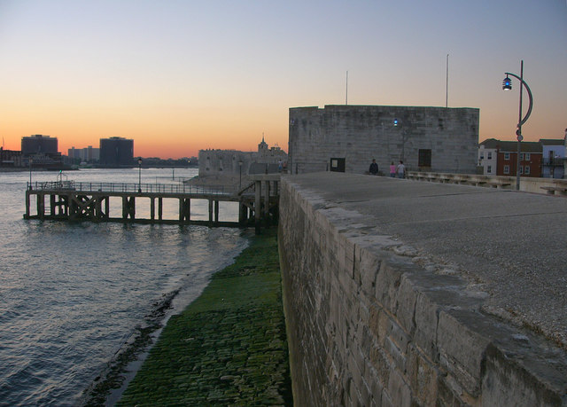 Portsmouth Harbour entrance